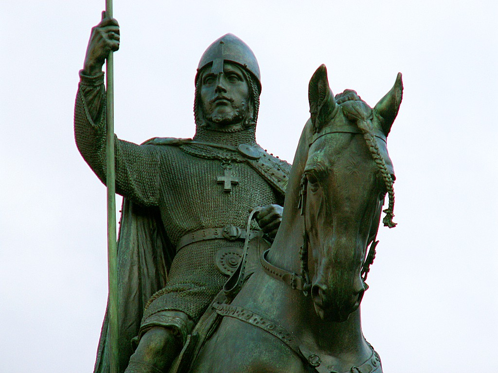 Equestrian statue of Wenceslaus I, Duke of Bohemia in Prague (Czech Republic), sculpted by Josef Václav Myslbek.